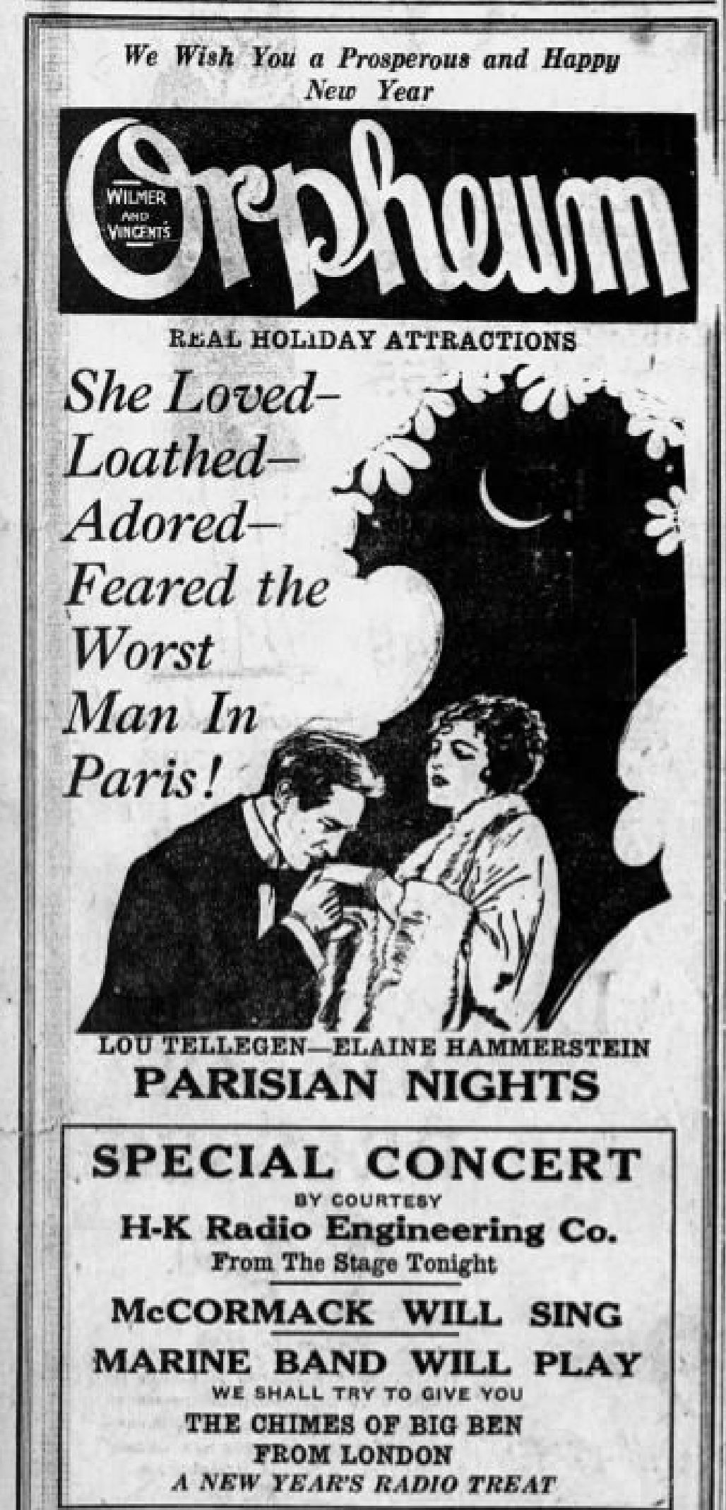 Orpheum Theater advertisement for the American film Parisian Nights (1925) - 1 Jan. 1926 Morning Call, Allentown PA